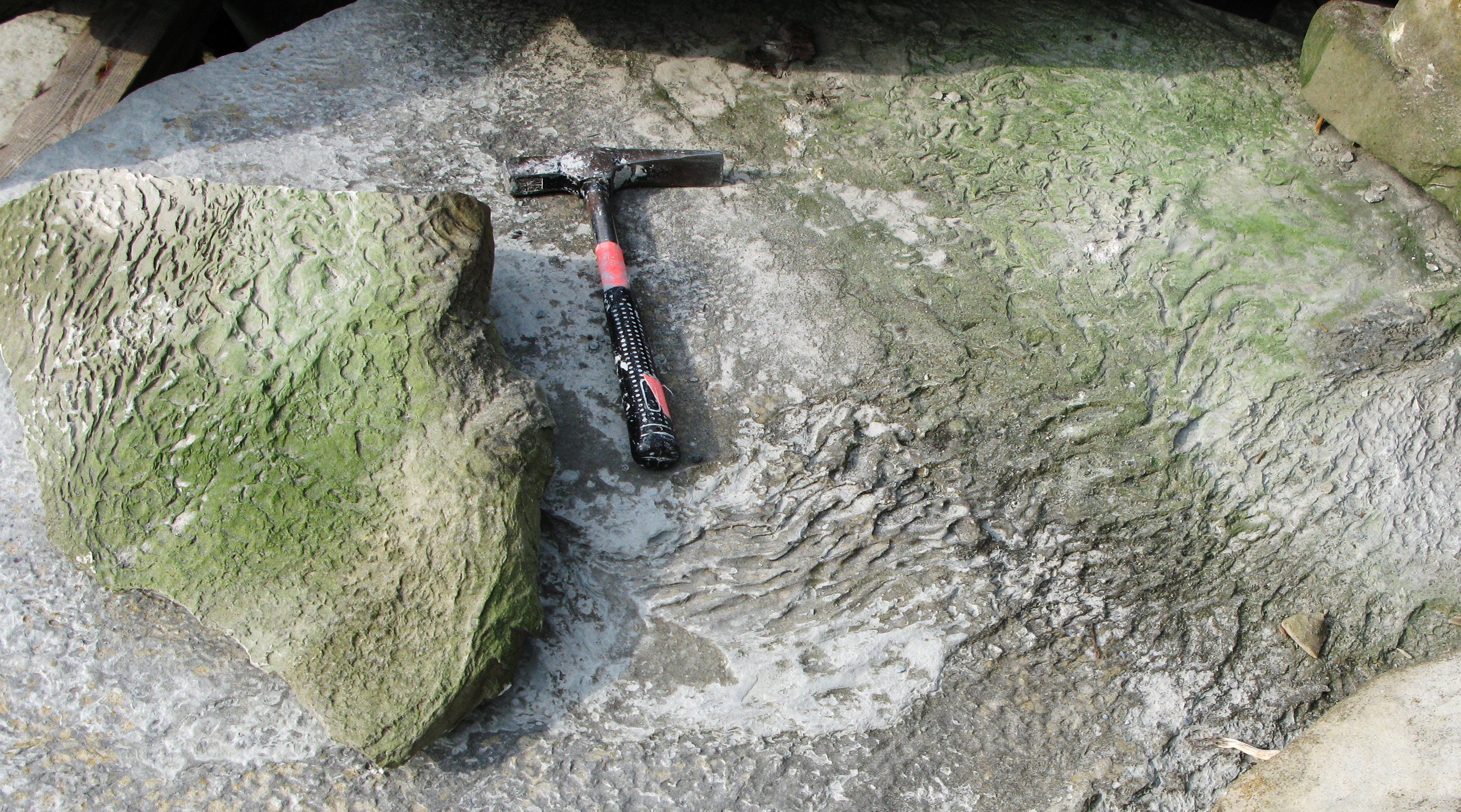 The "Runzelmarken" of Manten, A.A. (1966). "Some problematic shallow-marine structures". Marine Geol 4: 227–232. Retrieved on 2007-06-18. Now recognised as a beautiful example of the "elephant skin" texture diagnostic of a microbial mat. From the Burgsvik beds of Gotland, Sweden